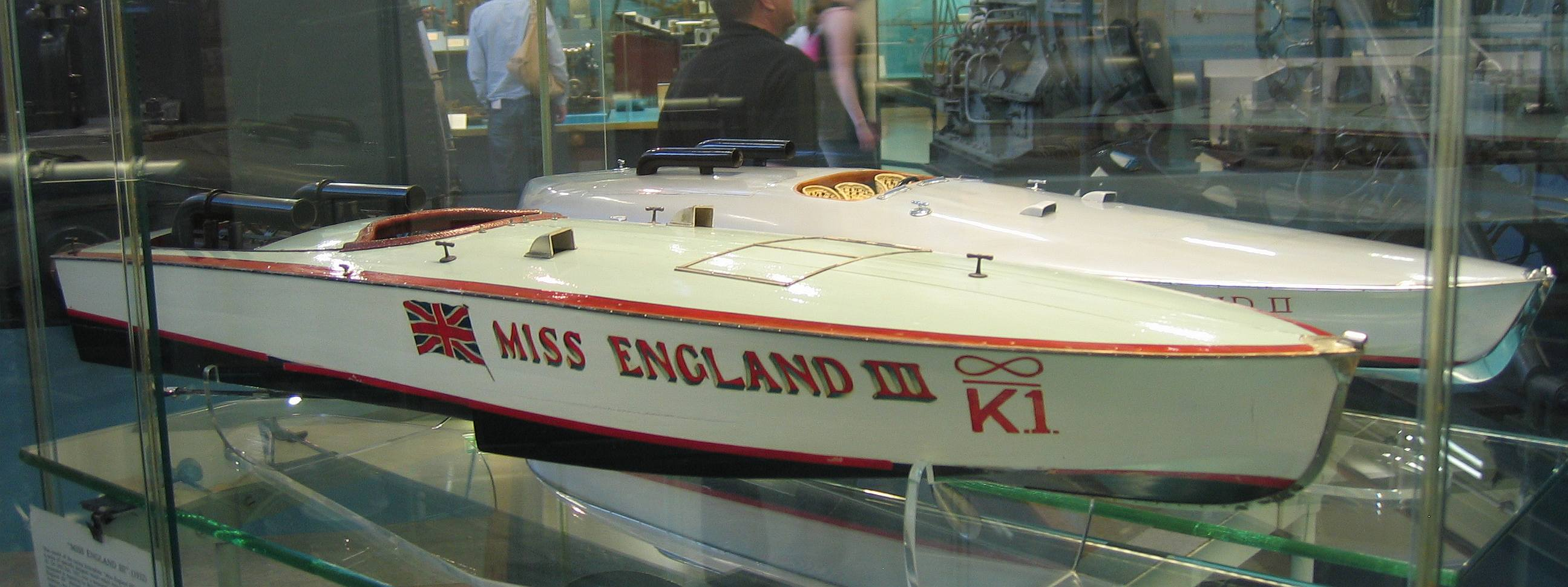 Models of Miss England III and Miss England II (behind) at the Science Museum, London